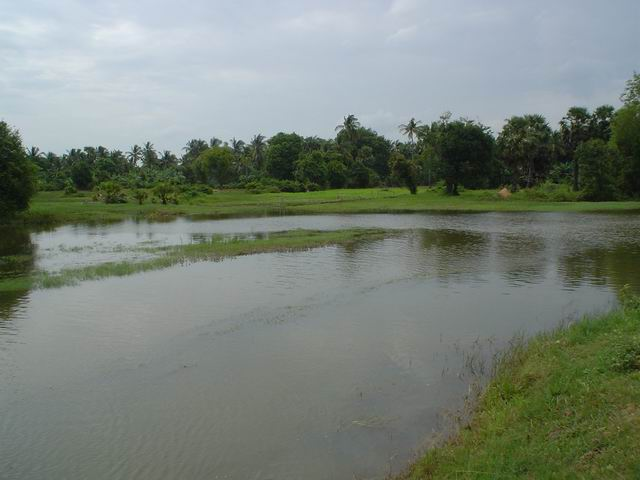 This picture by Albeiro Rodas can be used for any purpose, provided that his name is credited. Cambodian tropical wood in Banteay Meanchey Province. Cambodia